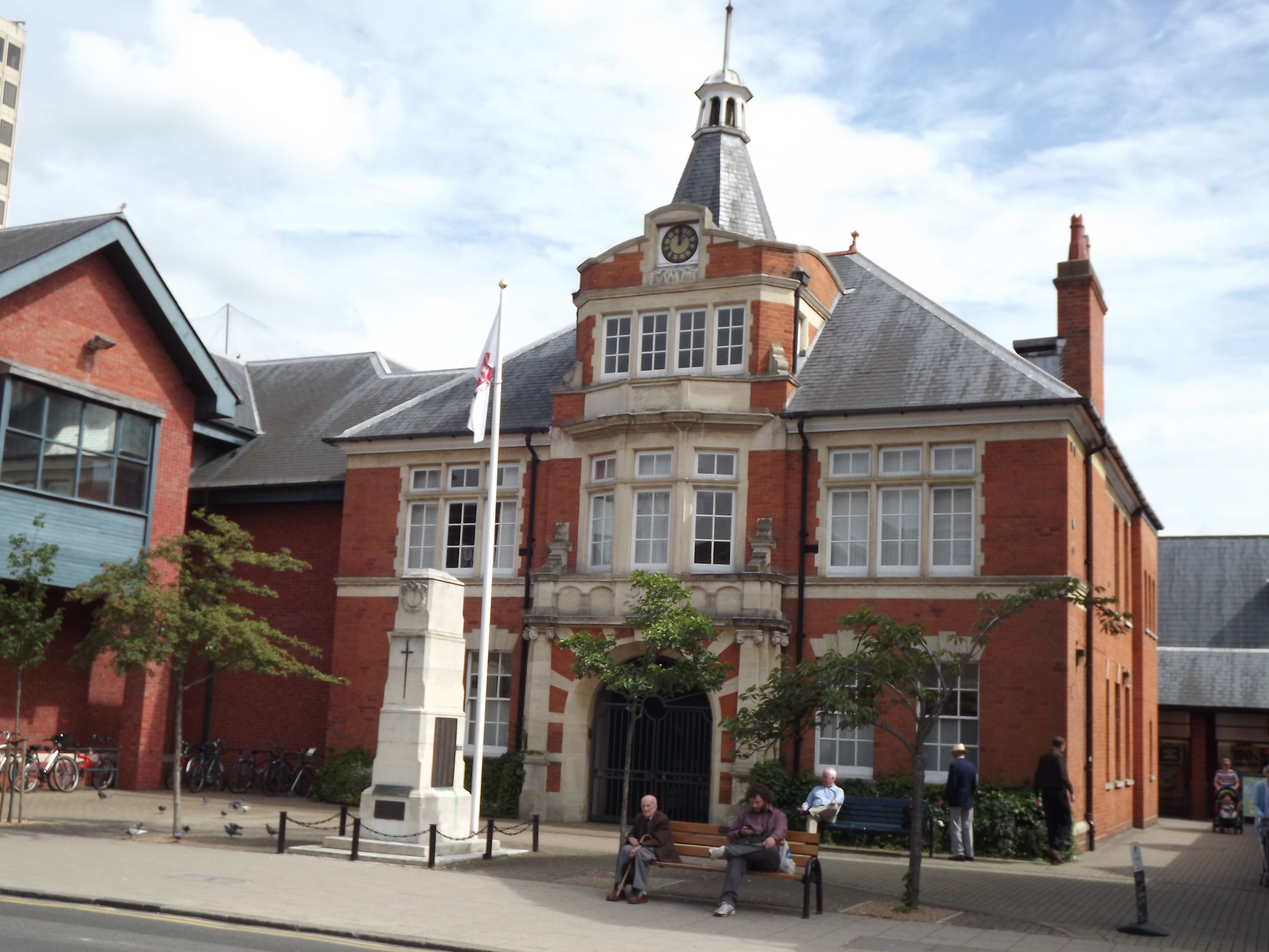 Old Town Hall, New Malden